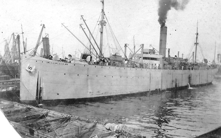 US Navy troop transport USS Arizonan (ID-4542A).